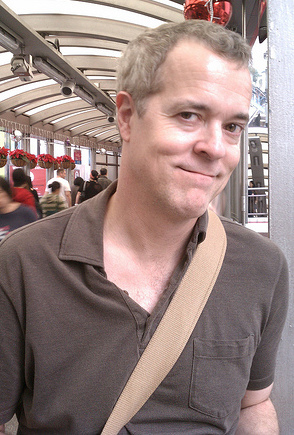 Picture of American author and entrepreneur Rob Reid.